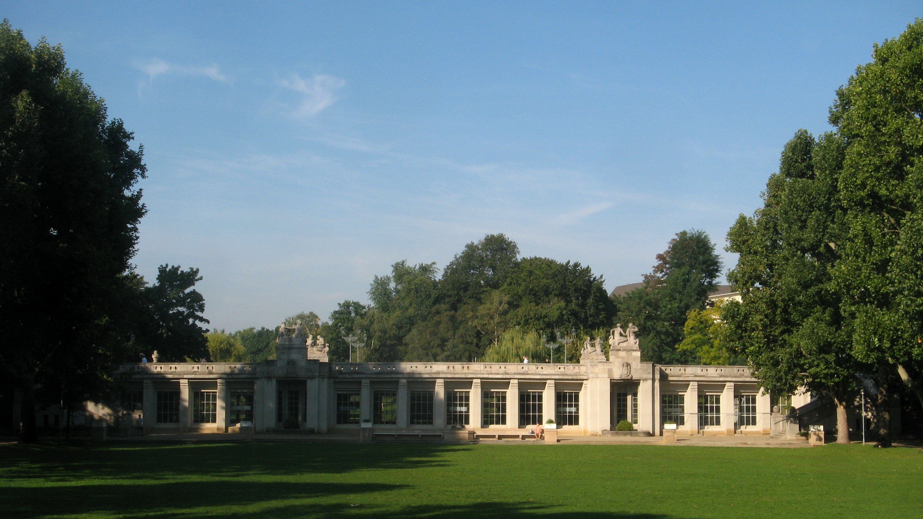 Subway Station Rathaus Schöneberg in Berlin